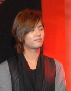 Kim Kyu Jong from SS501 at My Style My MTV on stage